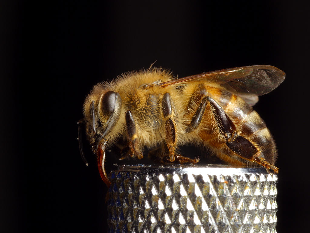 Western honey bee